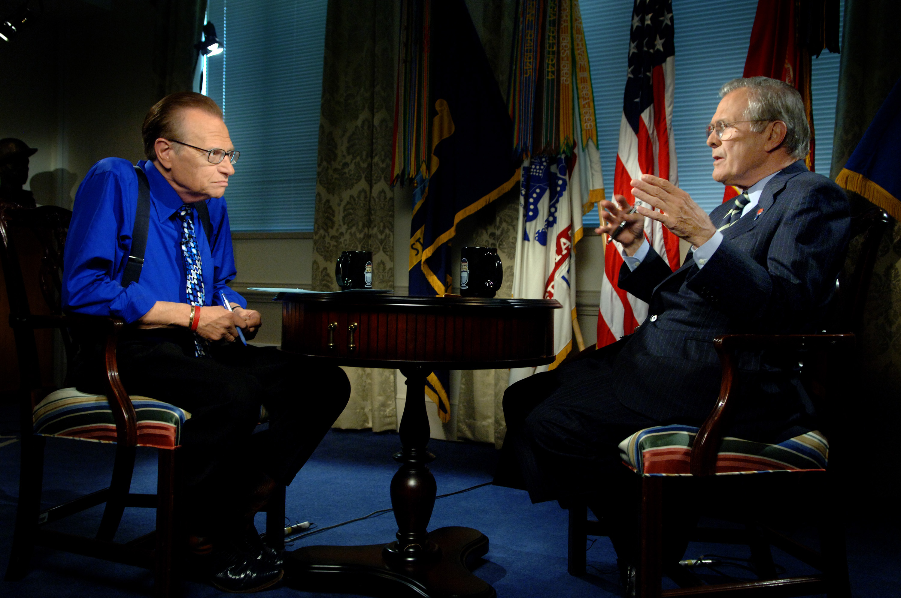 Secretary of Defense Donald Rumsfeld answers a question from CNN's Larry King during a videotaping of his Larry King Live program at the Pentagon in Arlington, Va.